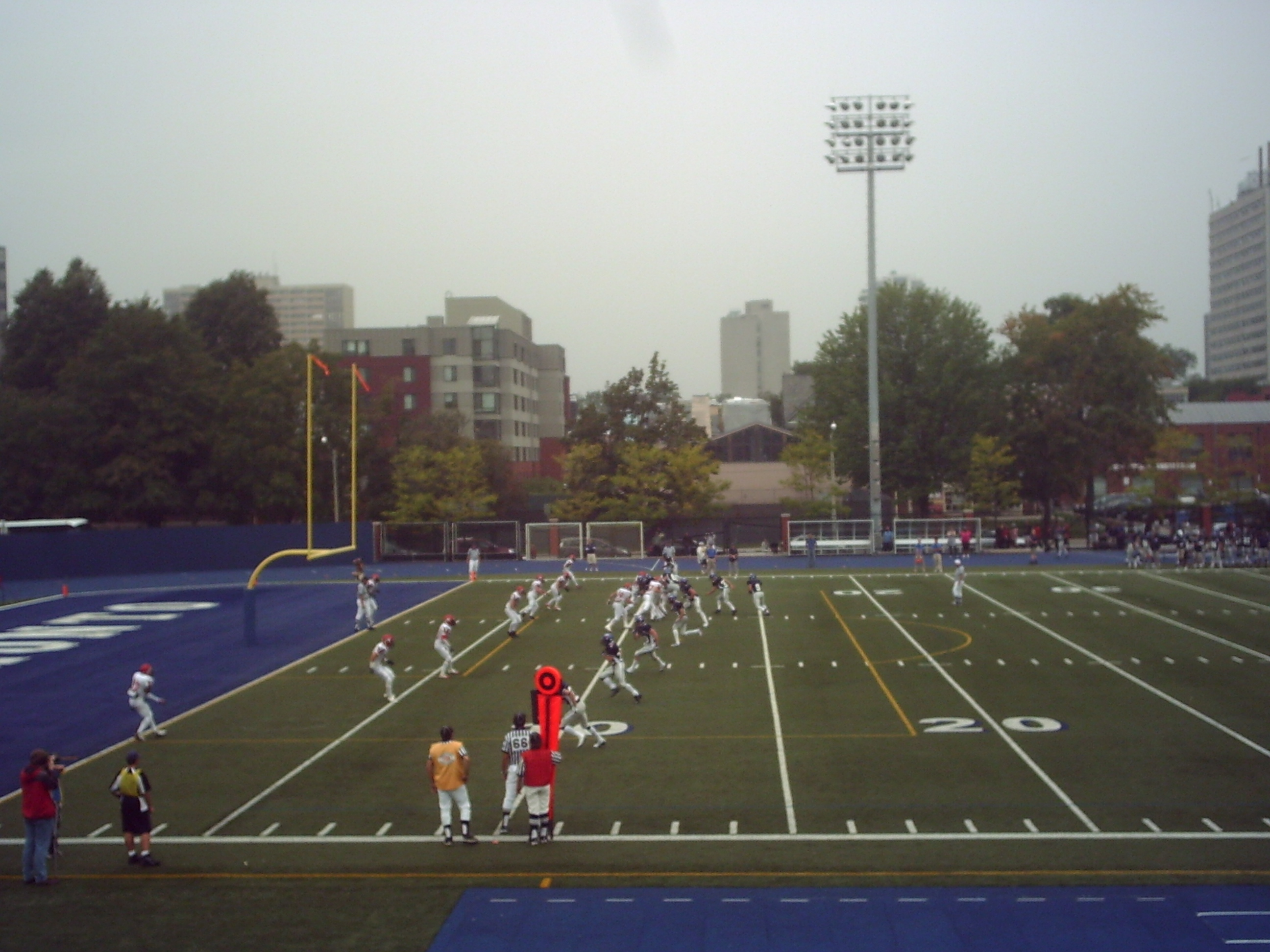 The York University Lions (in white) vs University of Toronto Varsity Blues (in blue) face-off in CIS football at Varsity Stadium. 13 September 2008.